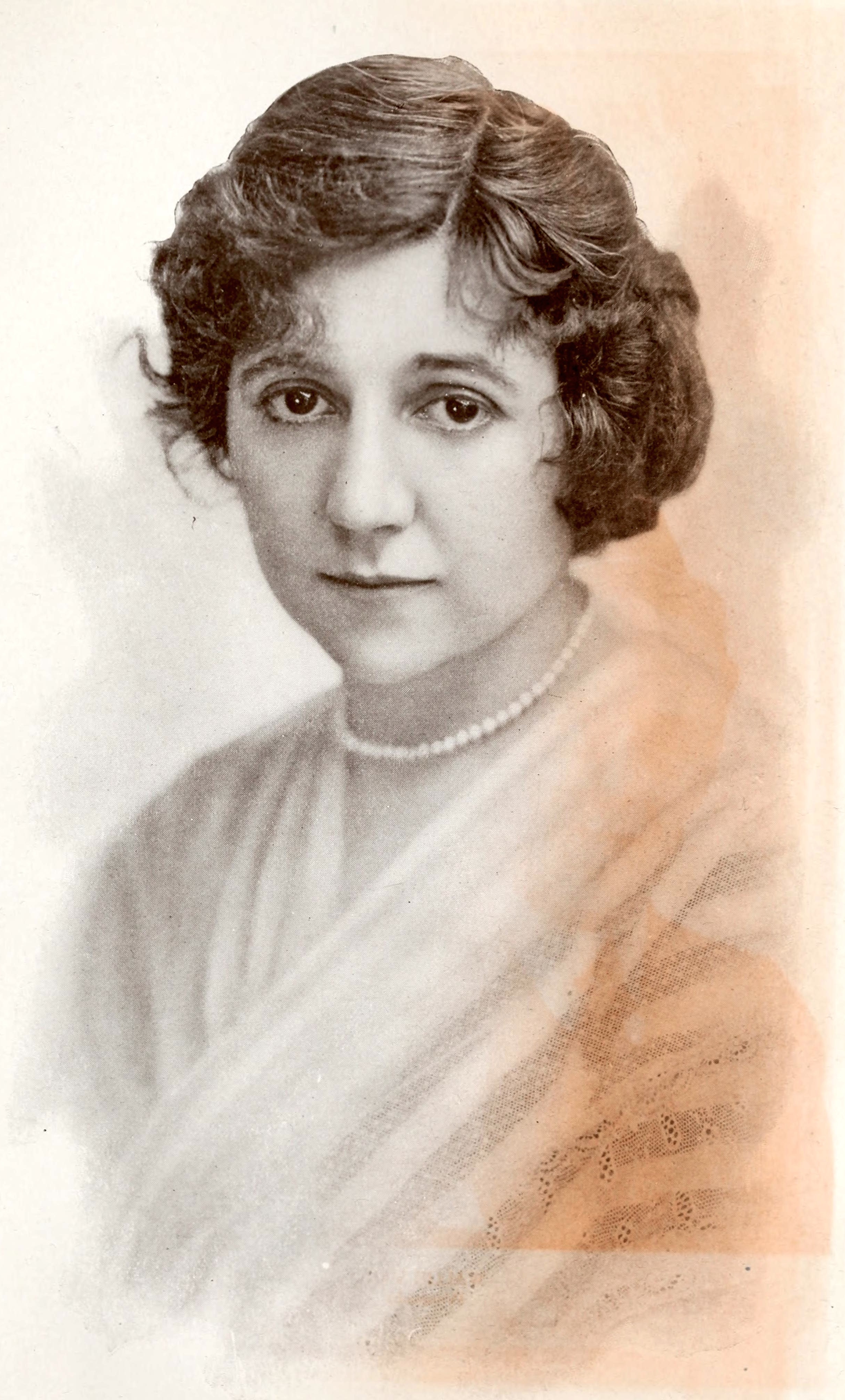 Actress Mabel Trunnelle in the picture section after page 12 of the February 1914 Motion Picture Story magazine.